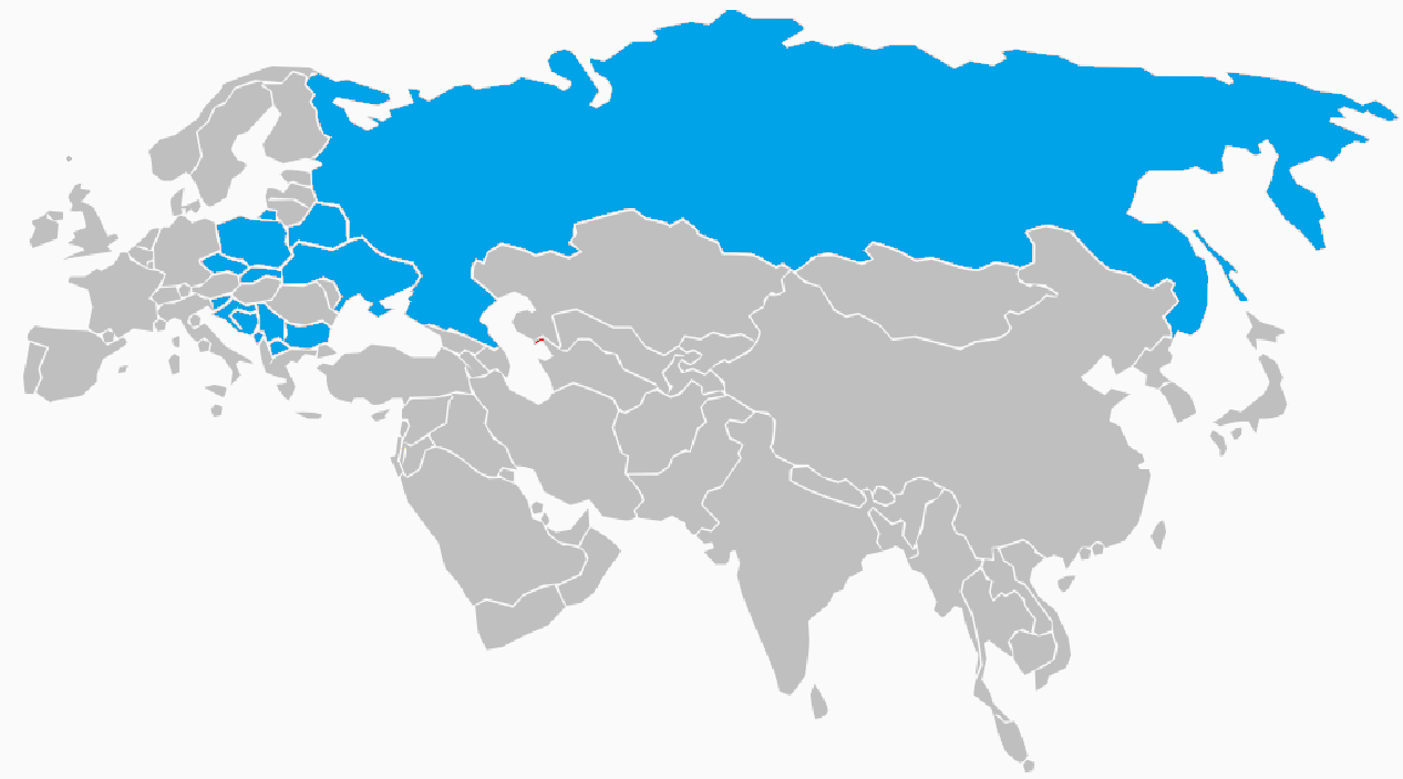 Slavic countries in Euroasia